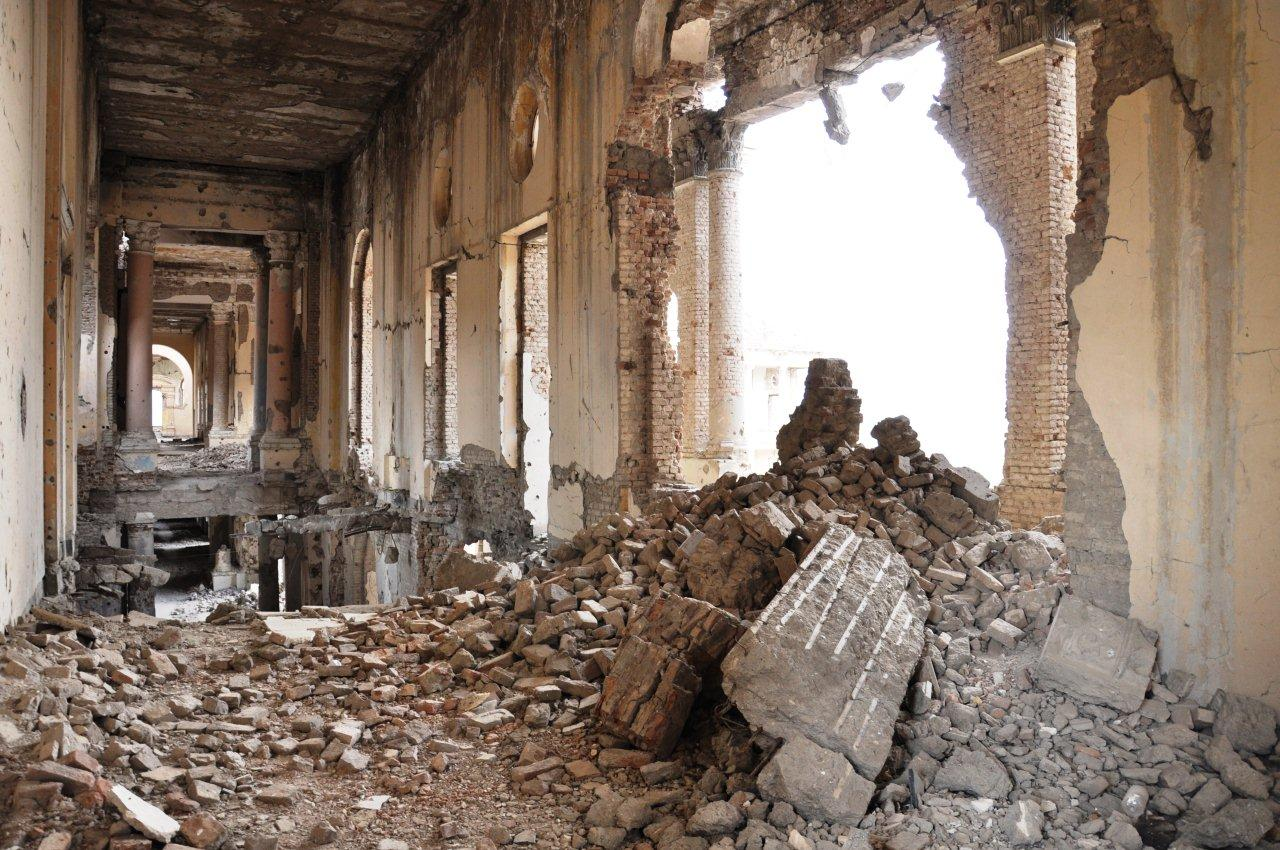 Photo taken inside Darul Amman Palace Kabul, Afghanistan